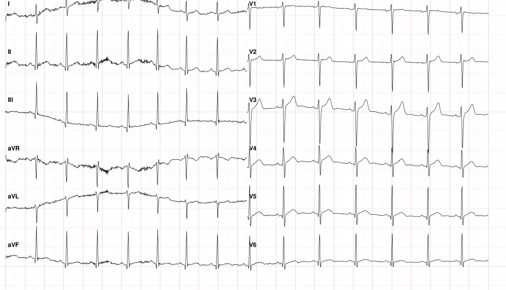 ECG during Ergospirometry (cardiopulmonary Exercise test)